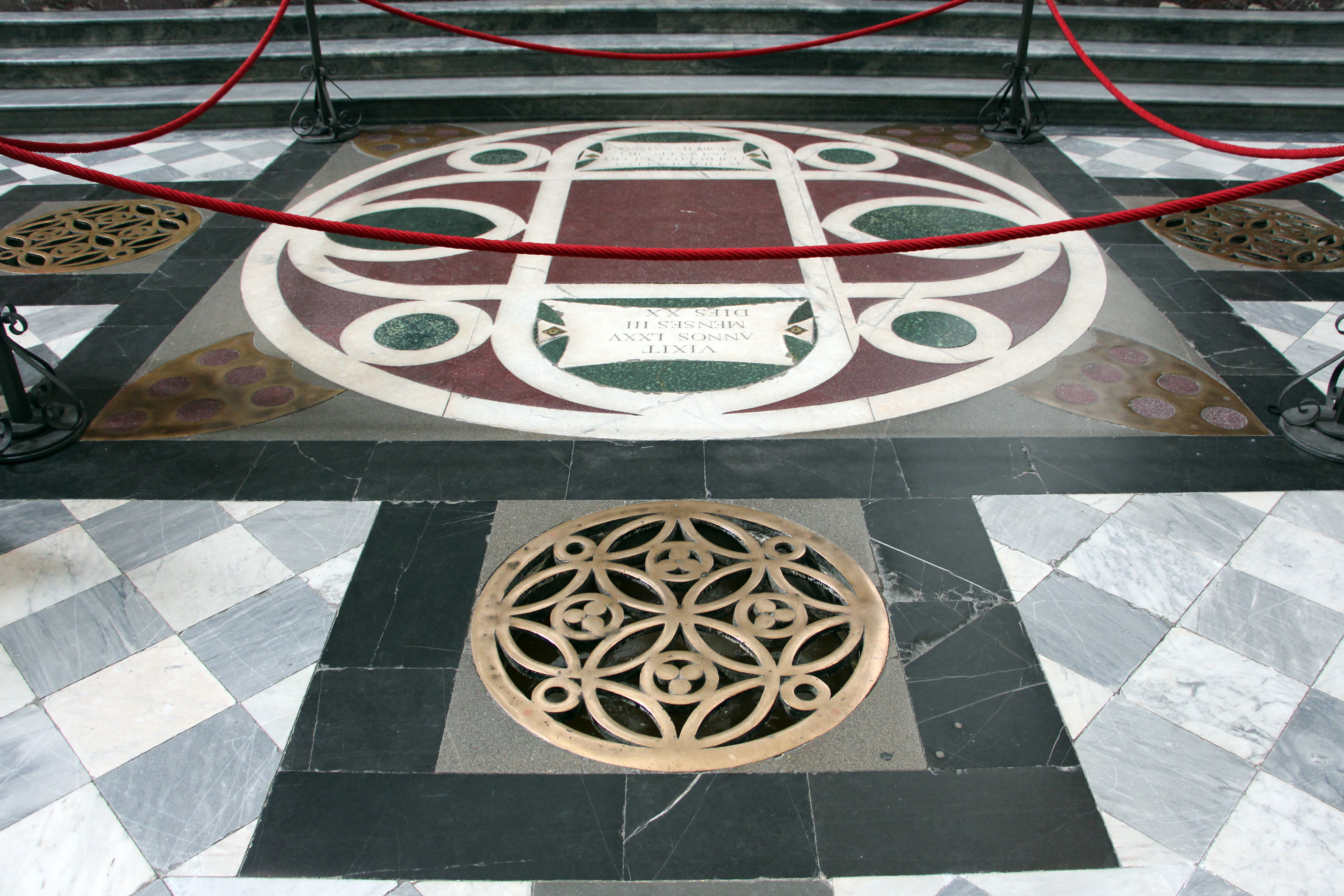 Interior of the Basilica of San Lorenzo (Florence)